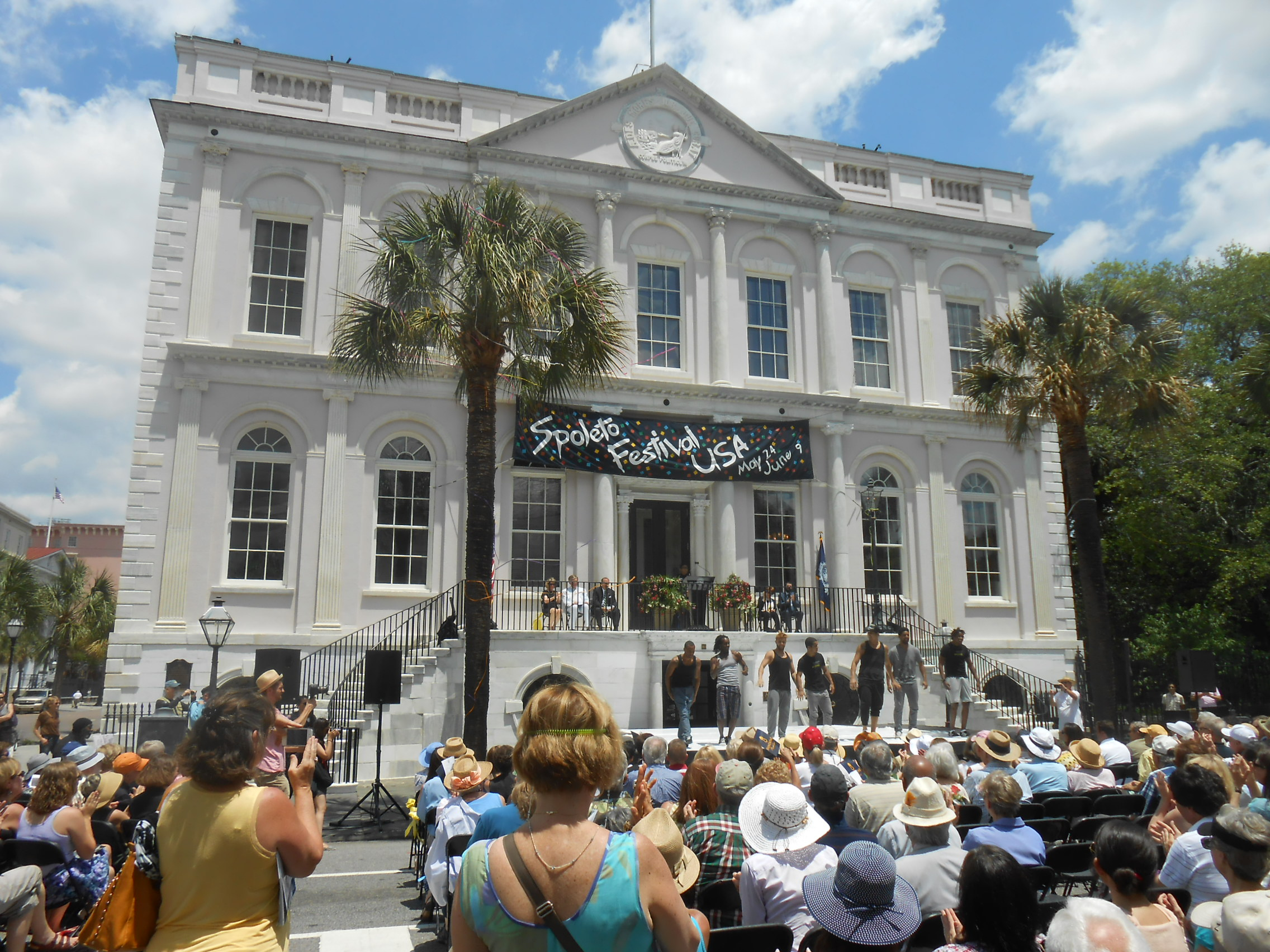 The opening ceremony of Spoleto Festival USA 2013.